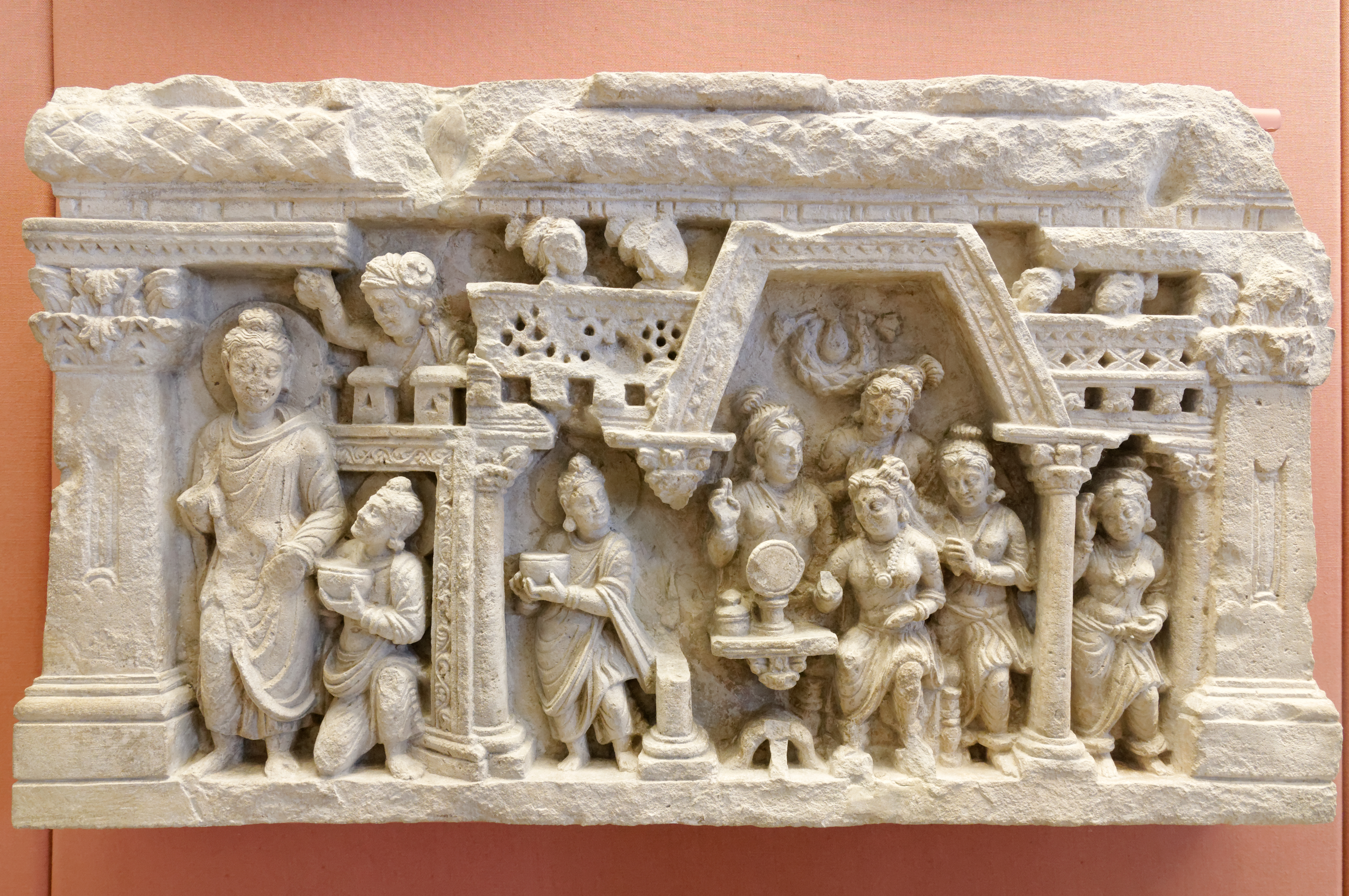 Panel showing the conversion of Prince Nanda, the younger half-brother of the Buddha.